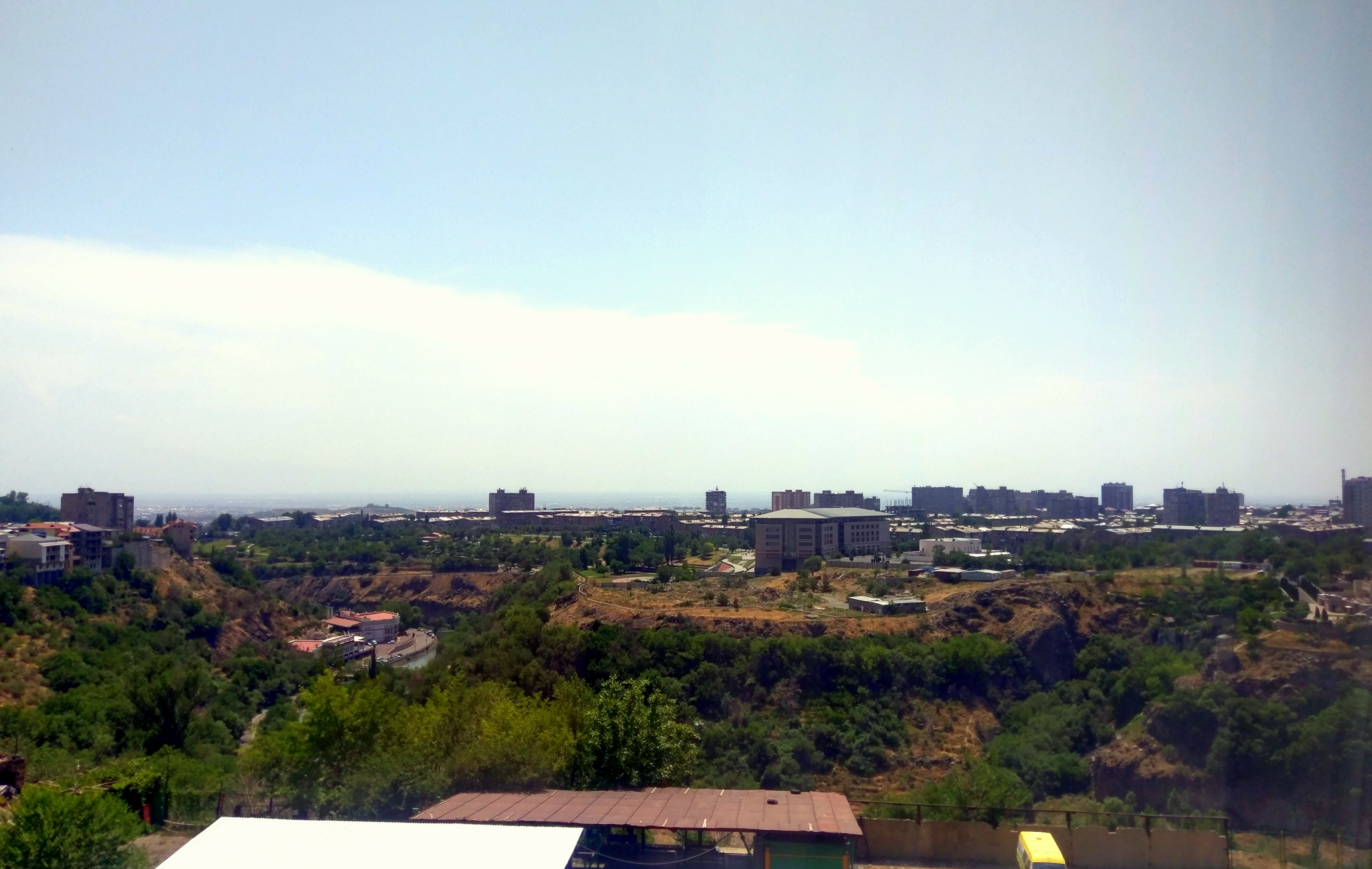 Yerevan, Ajapnyak District.